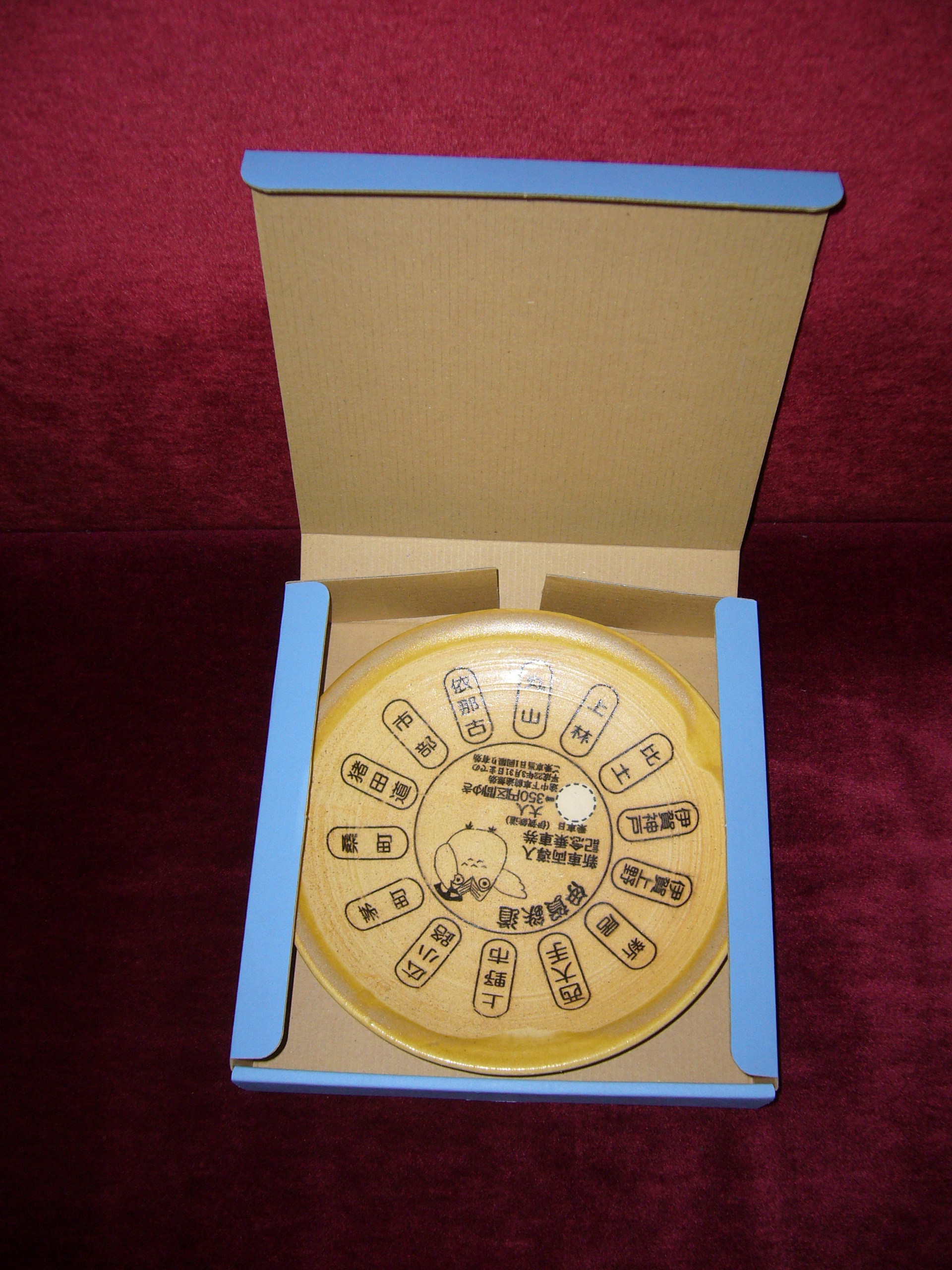 Osara-kippu, which is a ticket of Iga railway.